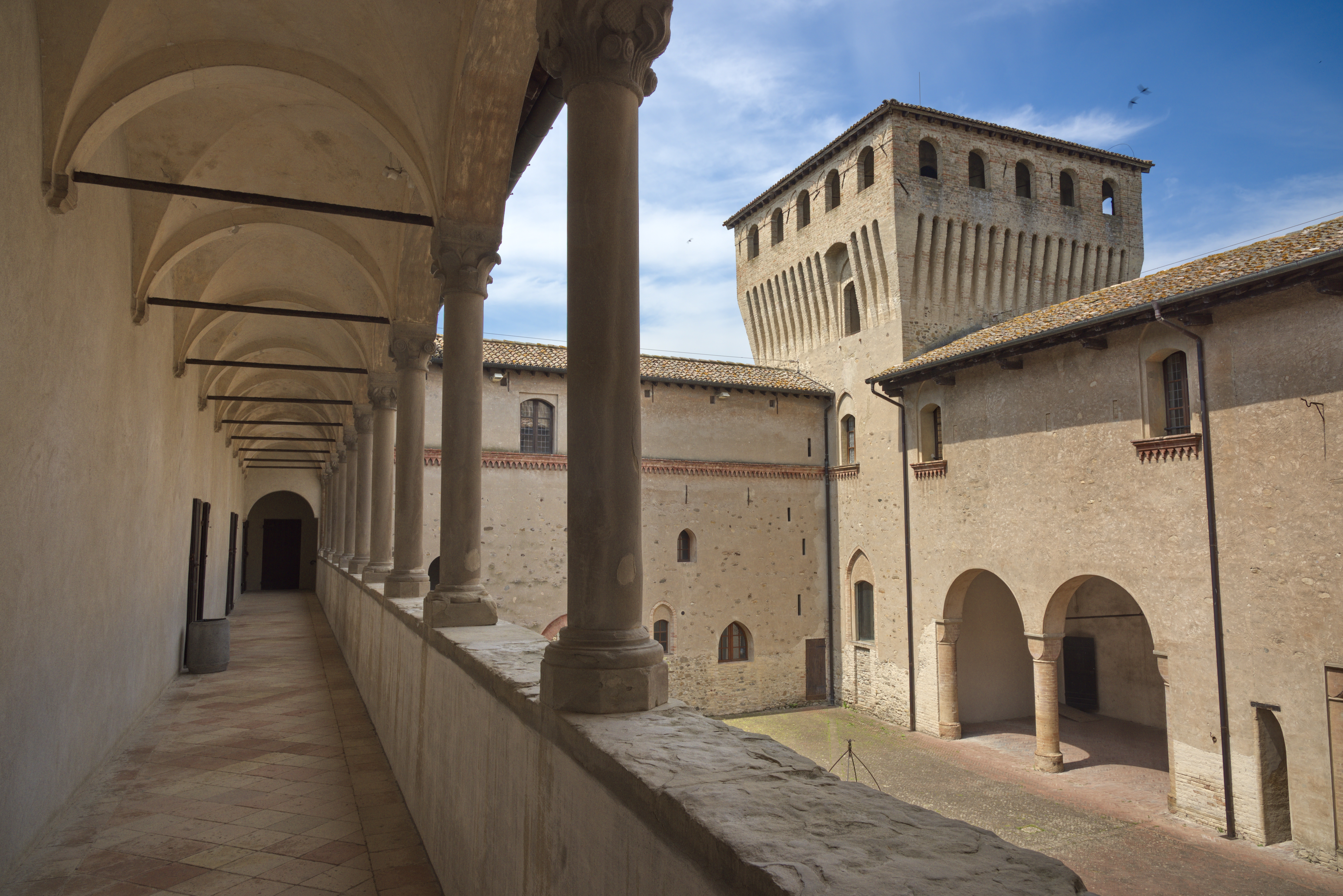 Province Parma, Langhirano, the Torrechiara Castle, XIV century, upper Gallery East This is a photo of a monument which is part of cultural heritage of Italy.